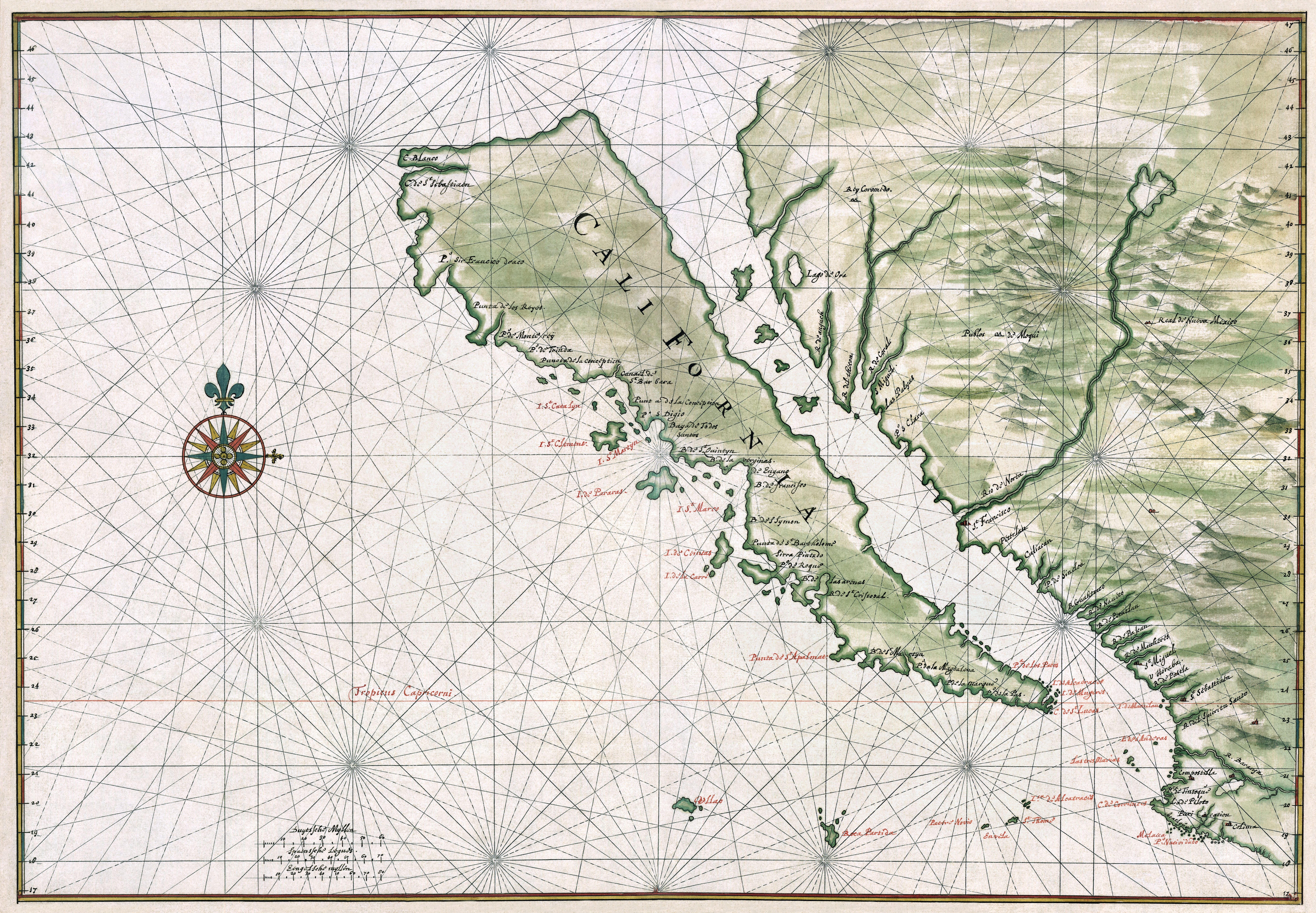 Map of California as an island. Ink and watercolor with pictorial relief.